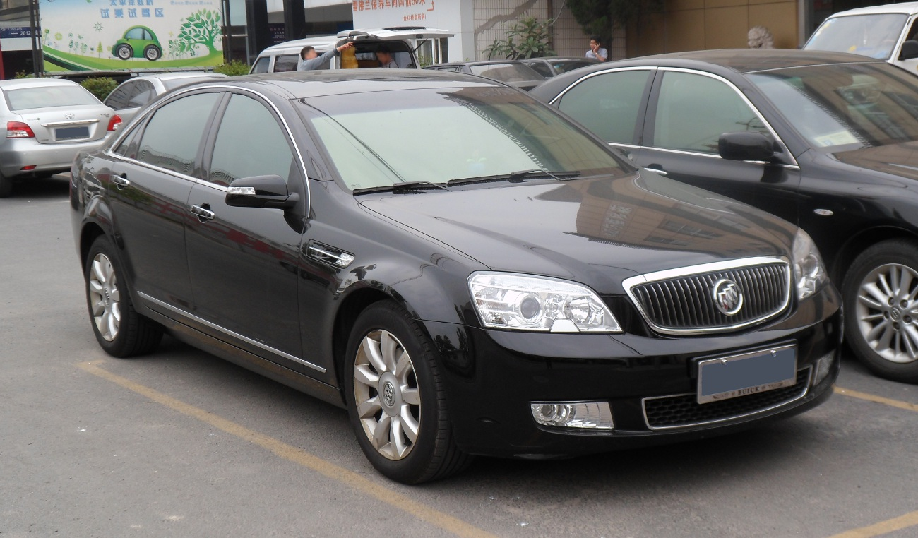 Buick Park Avenue CN photographed in Shanghai, China.